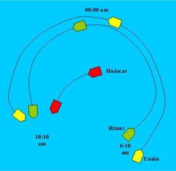 During the War of the Pacific, between Chile against Bolivia and Peru, the Chilean steamer Rímac was capture after naval battle, by the Peruvian ironclad Huáscar and cruiser Union, on Wednesday 23rd , july of 1879.